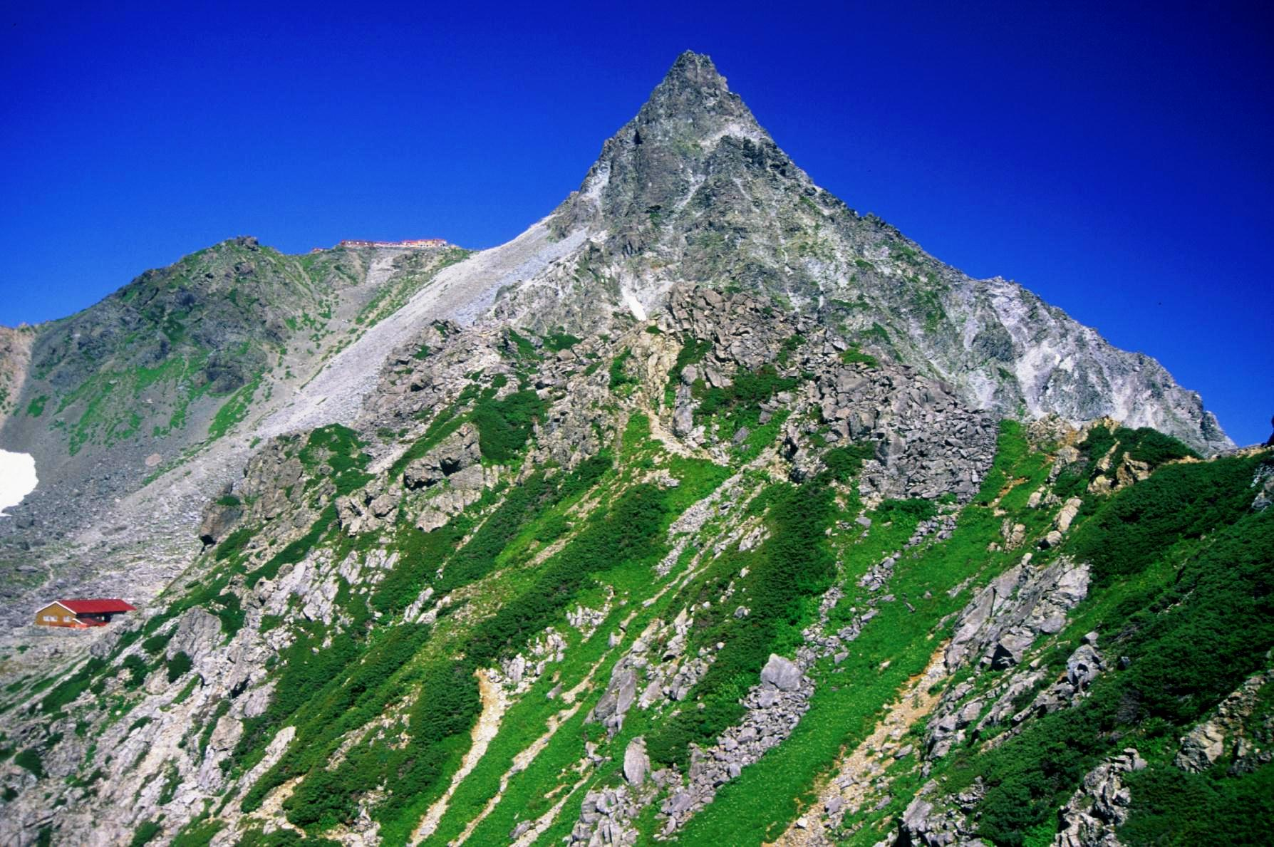 Mount Yari from Higashikamaone